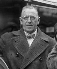 Clown Grock in Berlin, in October 1930